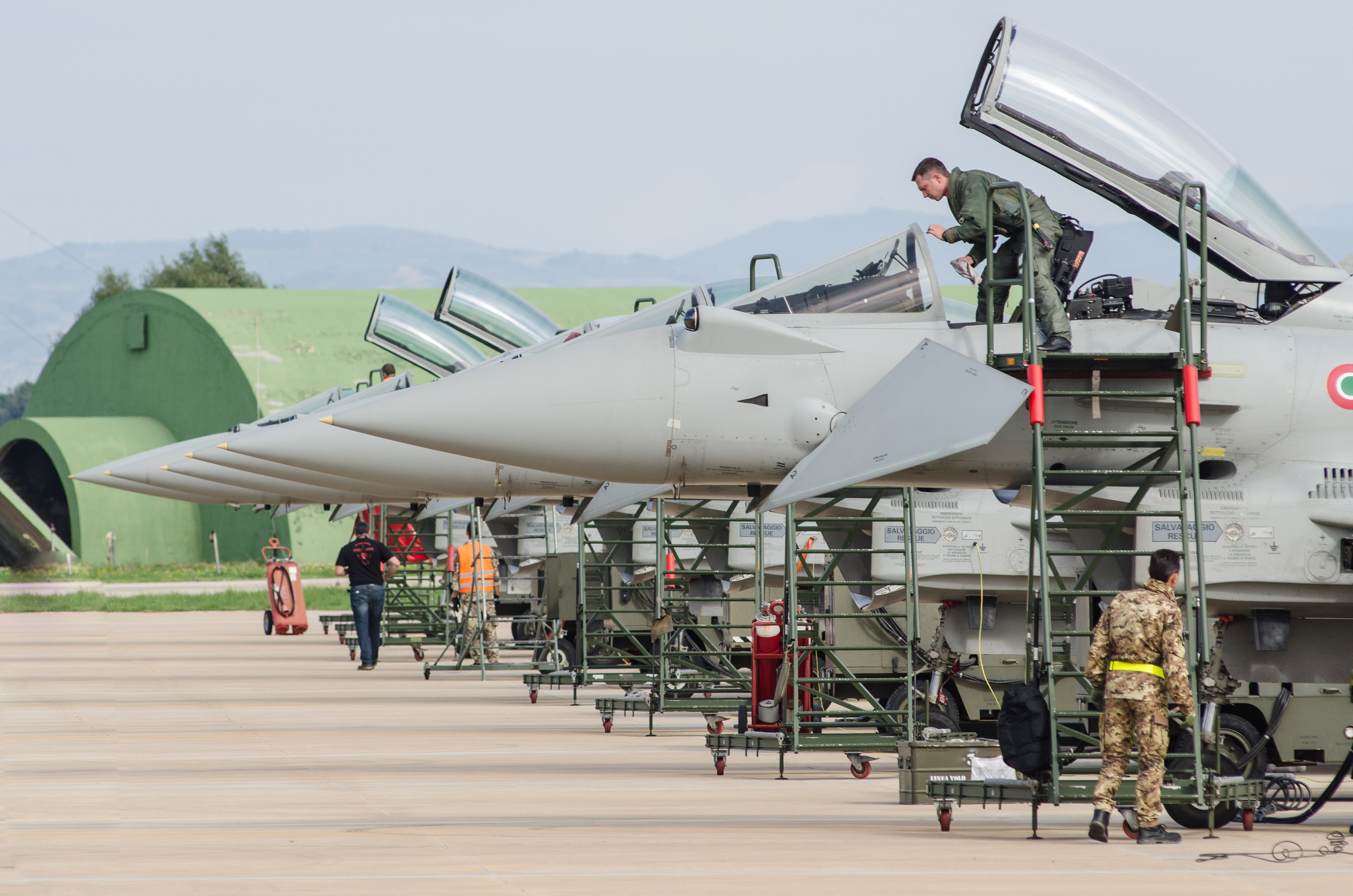 An Italian Air Force pilot ready to start for Composite Air Operations (COMAO) mission at Trapani Air Base, Italy on October 27, 2015 during Trident Juncture 15. NATO photo by Paolo ETTORRE